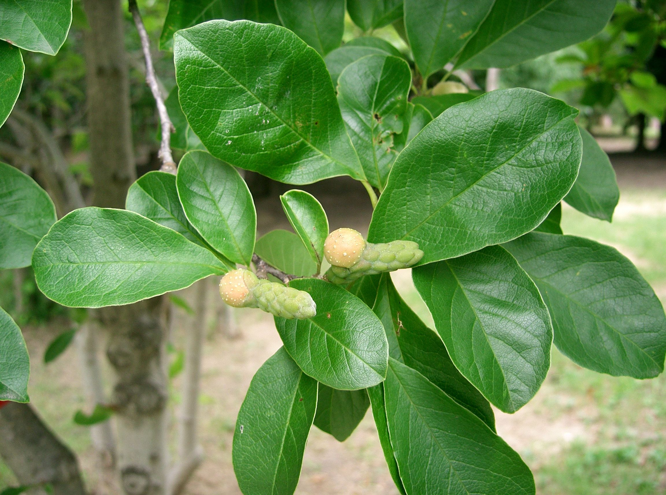 Magnolia stellata fruits, Osaka-fu Japan